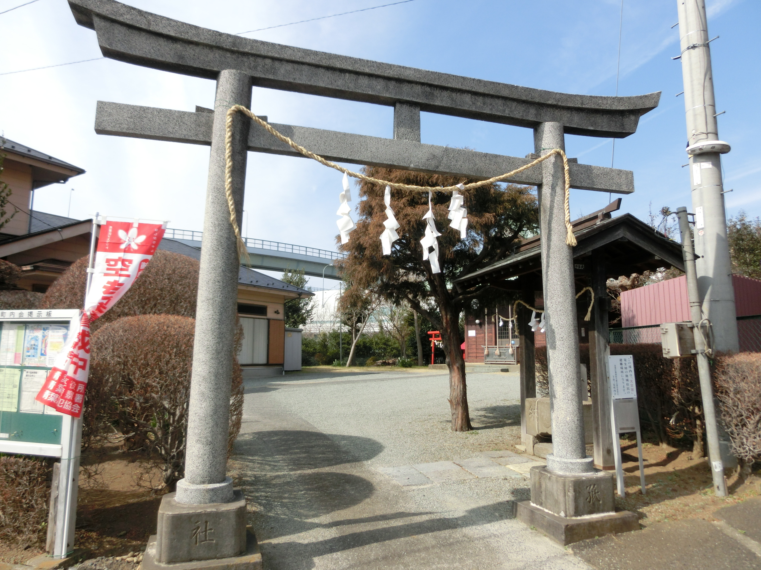 Ichigao Sugiyama Jinja